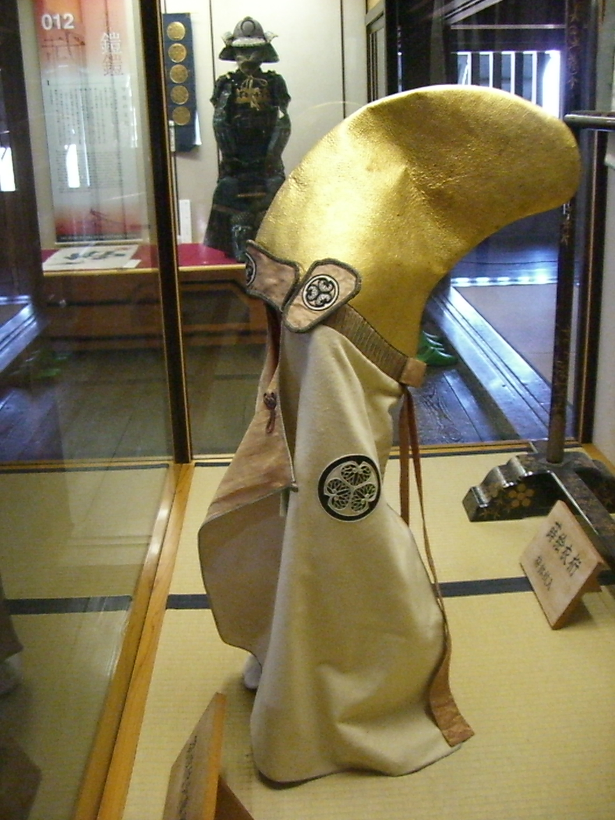 Exhibits in the Matsuyama Castle Tower (Ehime, JAPAN). A samurai womans kaji shozoku (fire costume) consisting of a kaji zukin (hood) and kaji/hikeshi shikoro (cape)